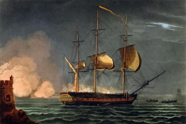 HMS Hermione